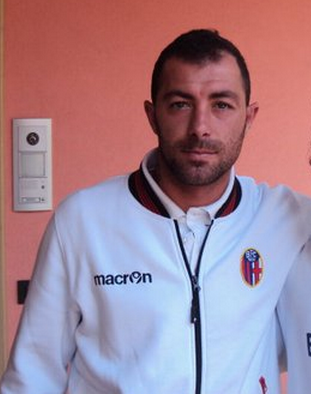 Daniele Vantaggiato with Bologna FC.